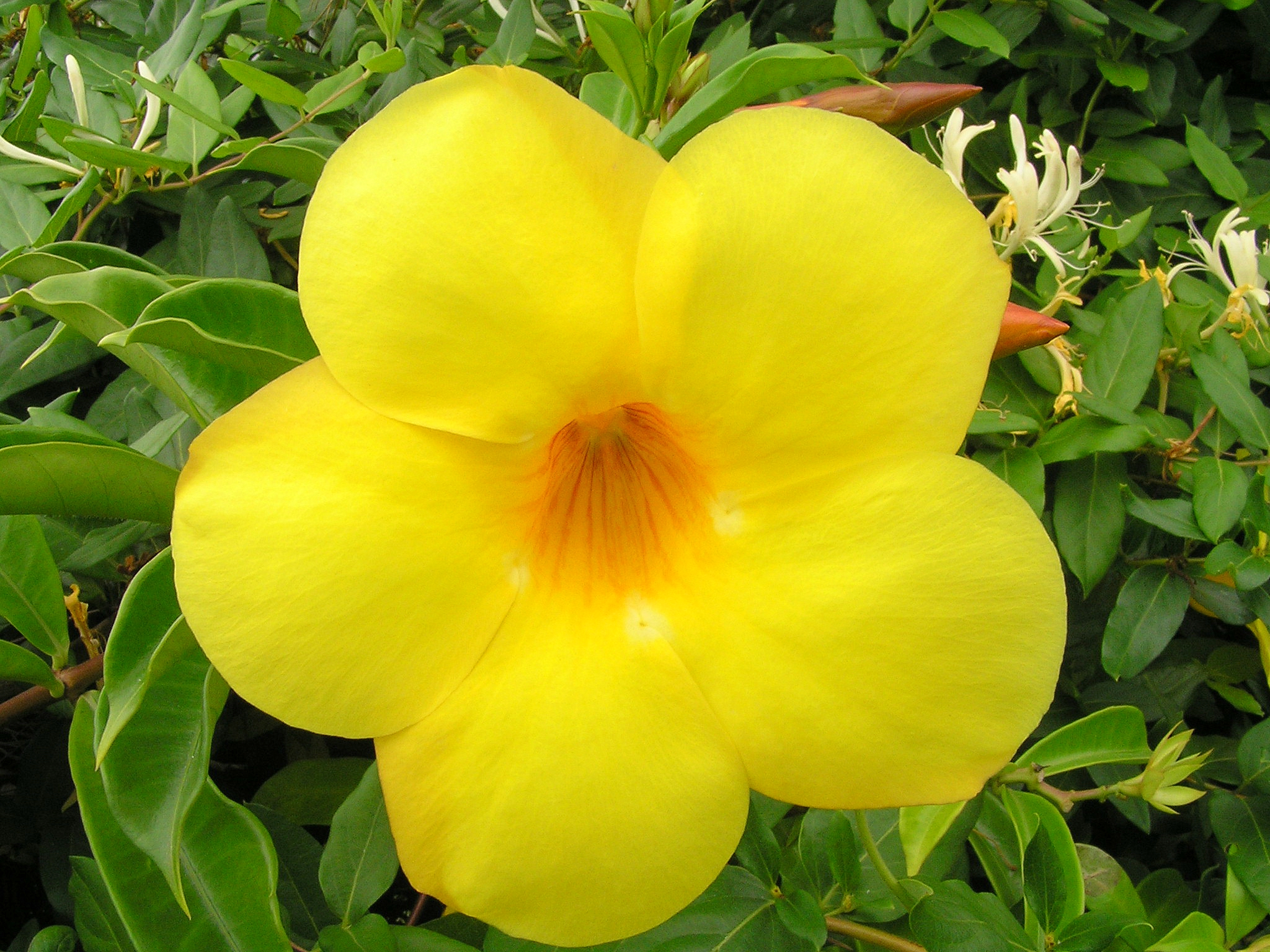 Unidentified yellow flower This bright flower is from Allamanda cathartica L., a vine belonging to the family of Apocynaceae. It is the cultivar 'Hendersonii' with brownish red markings in the throat. Just behind, one can see also flowers of another vine, a Lonicera, species (Caprifoliaceae).